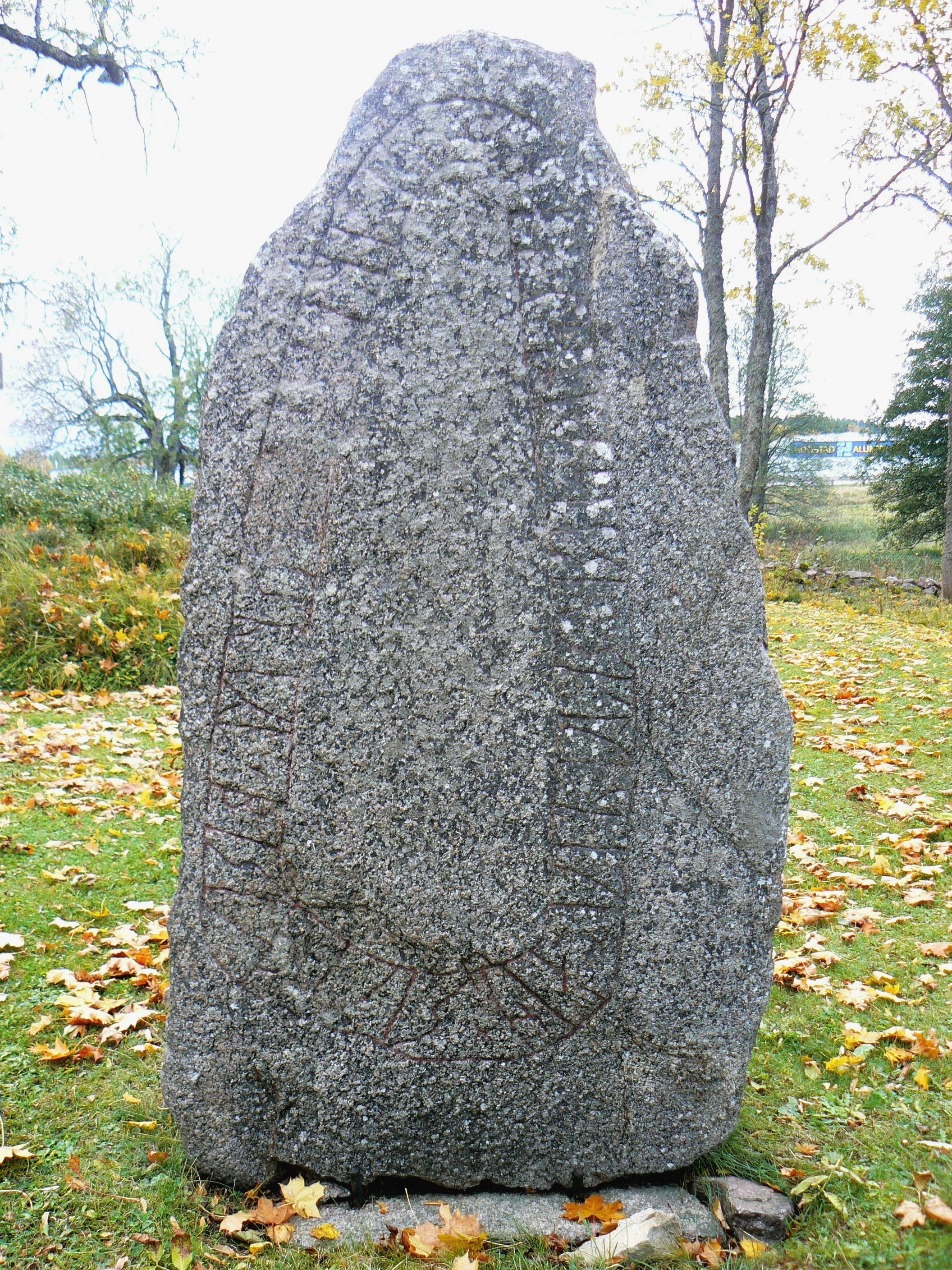 Runestone Ög 197 (Runic Inscriptions of Östergötland no 197) in Mjölby.